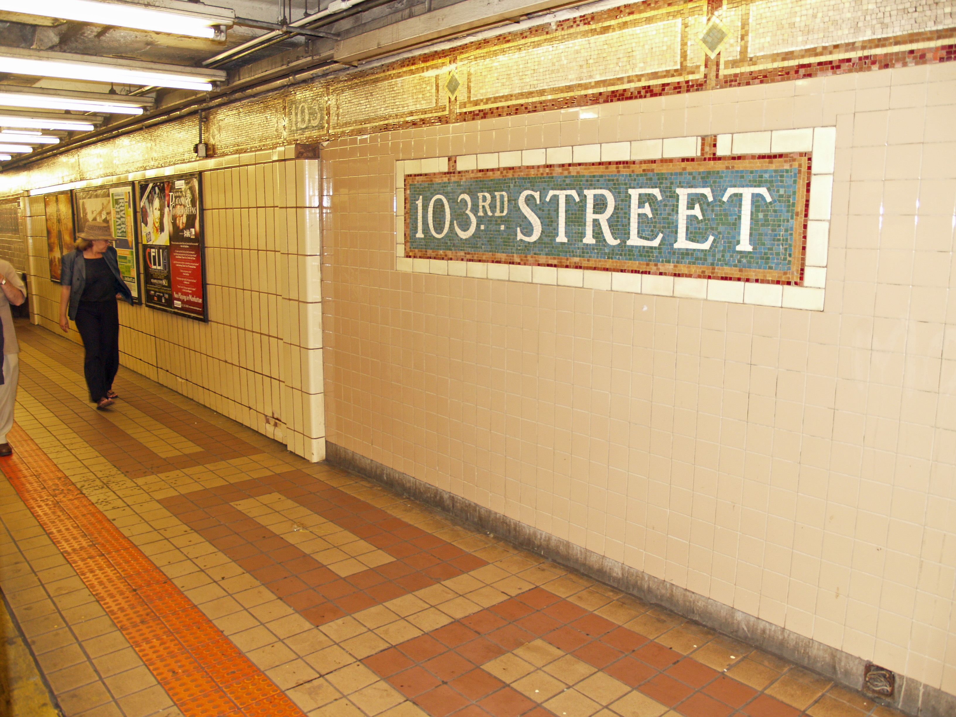 103rd Street (IRT Lexington Avenue Line)